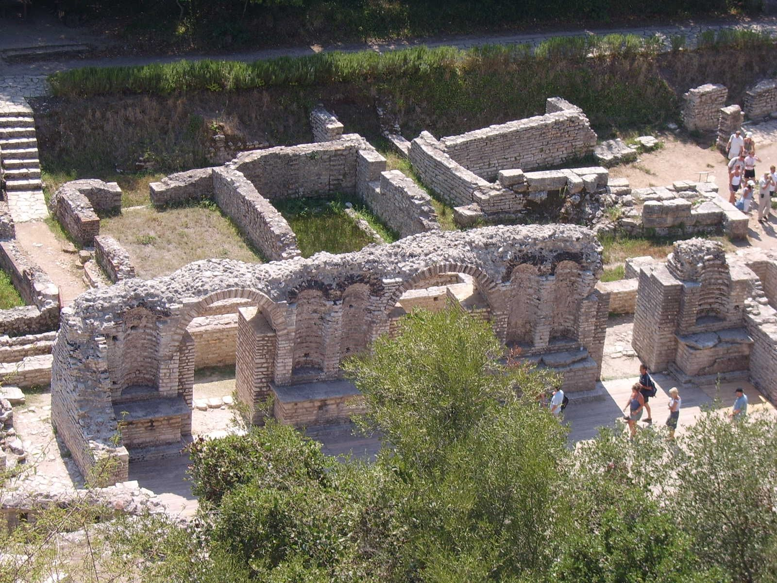 Butrint: View from Venetian Castle on theatre and agora